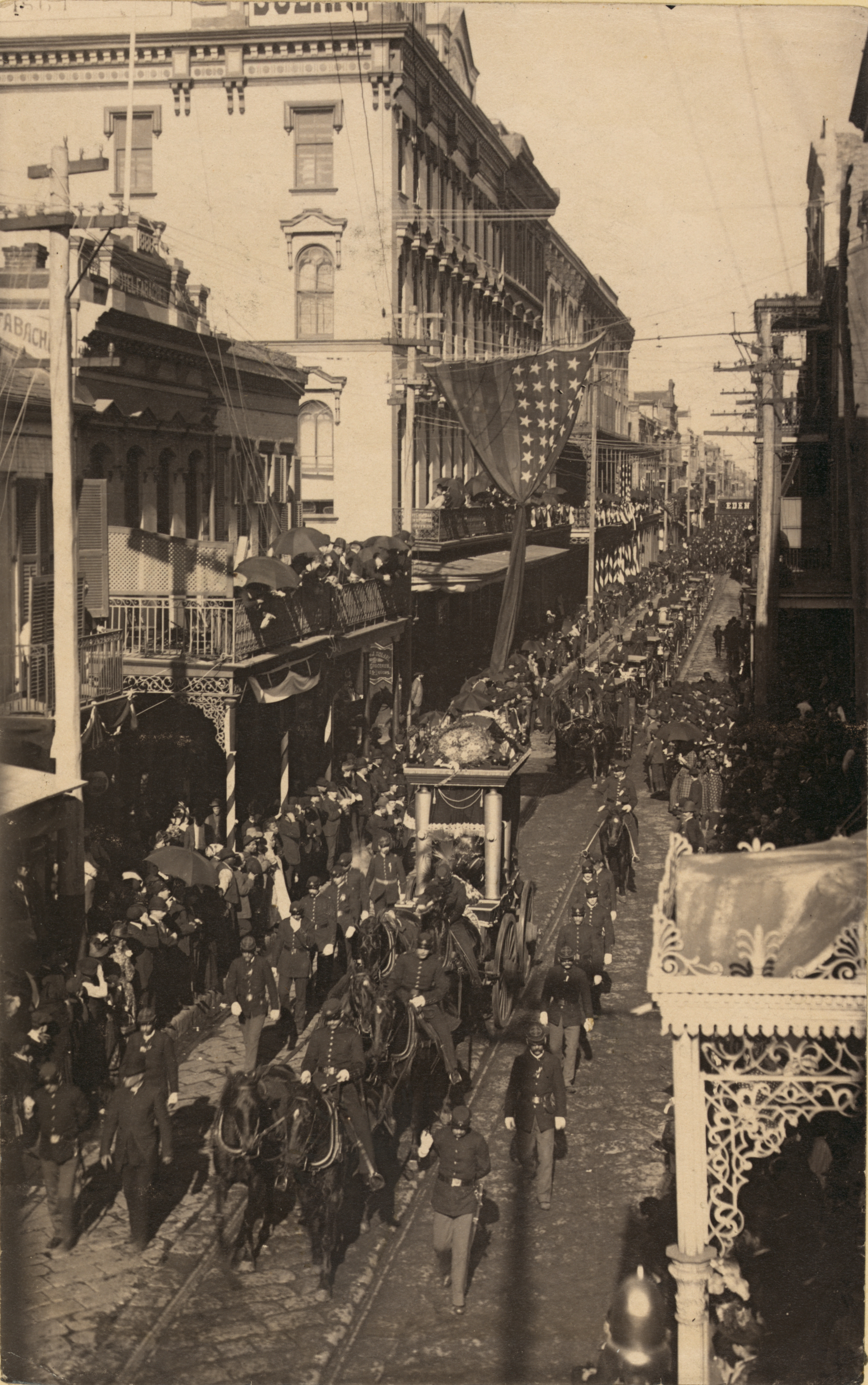 "Jefferson Davis, 1808-1889--Funeral. Body in horse-drawn wagon on street in New Orleans, La." Depicts funeral procession 11 December 1889 after Jefferson lied in state at City Hall and the corpse was moved with ceremony to Metairie Cemetery.